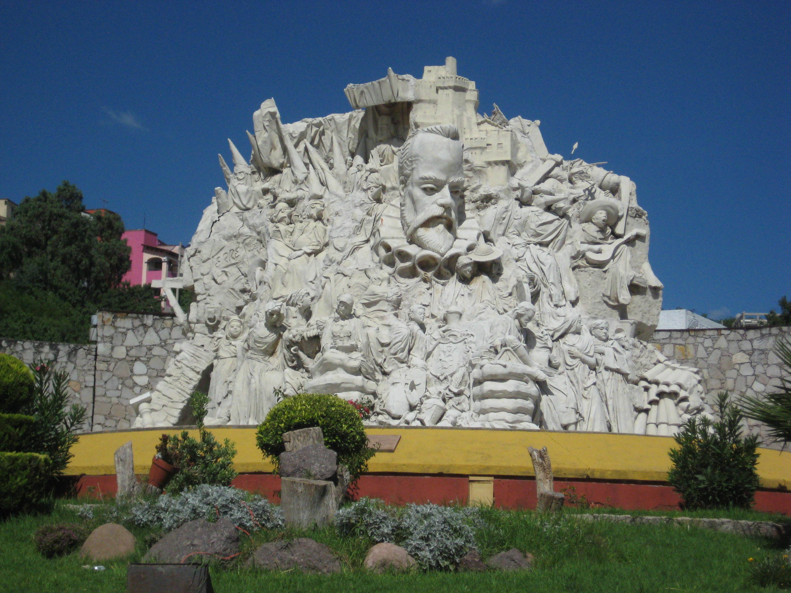 Public monument/tribute to Cervantes in Guanajuato, Mexico